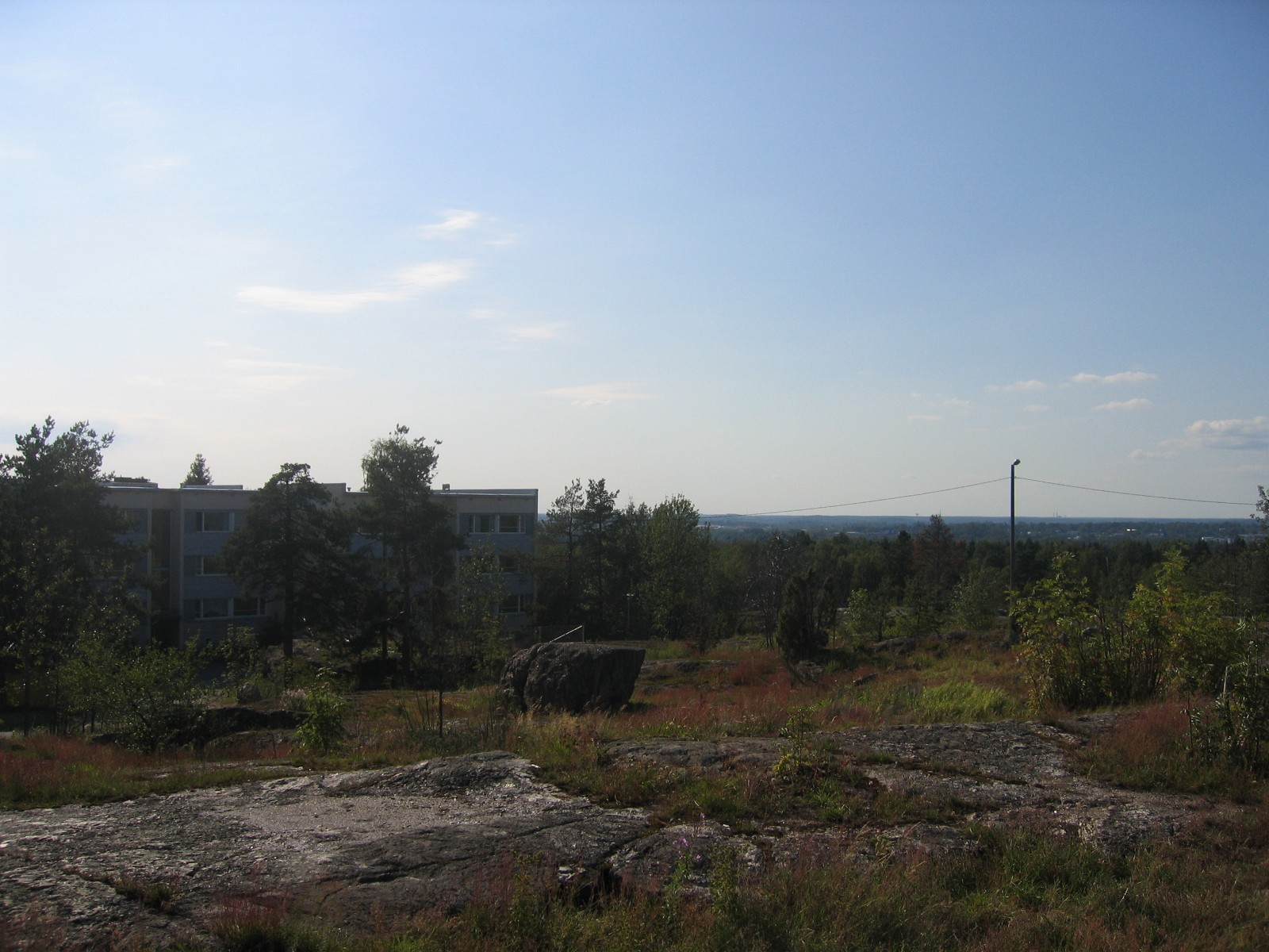 Jakomäki suburb in Helsinki, Finland. Jakomäki is the highest populated place in Helsinki, 59.5 metres above sea level.